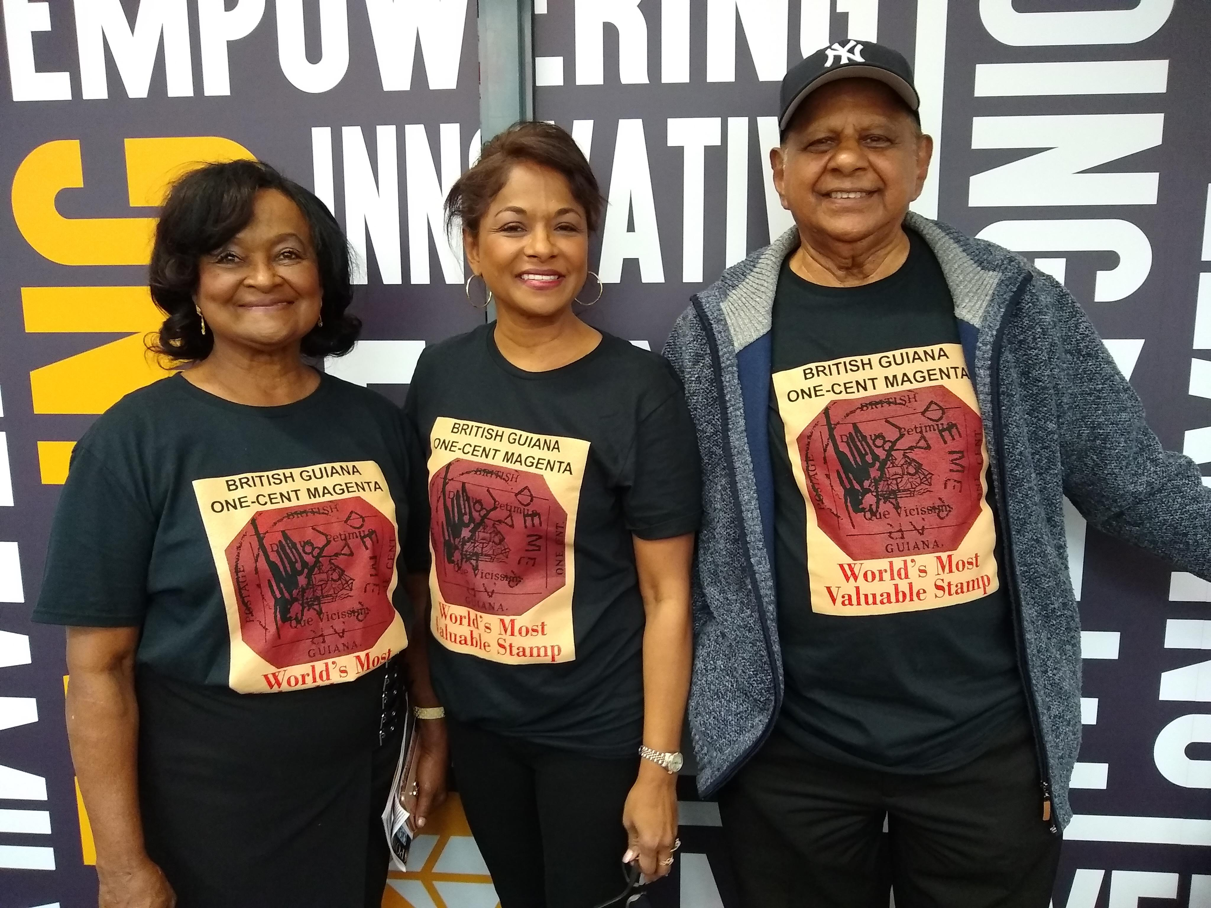 Guyana Philatelic Society members with British Guiana 1c magenta t-shirts. Ann Wood, president, centre.